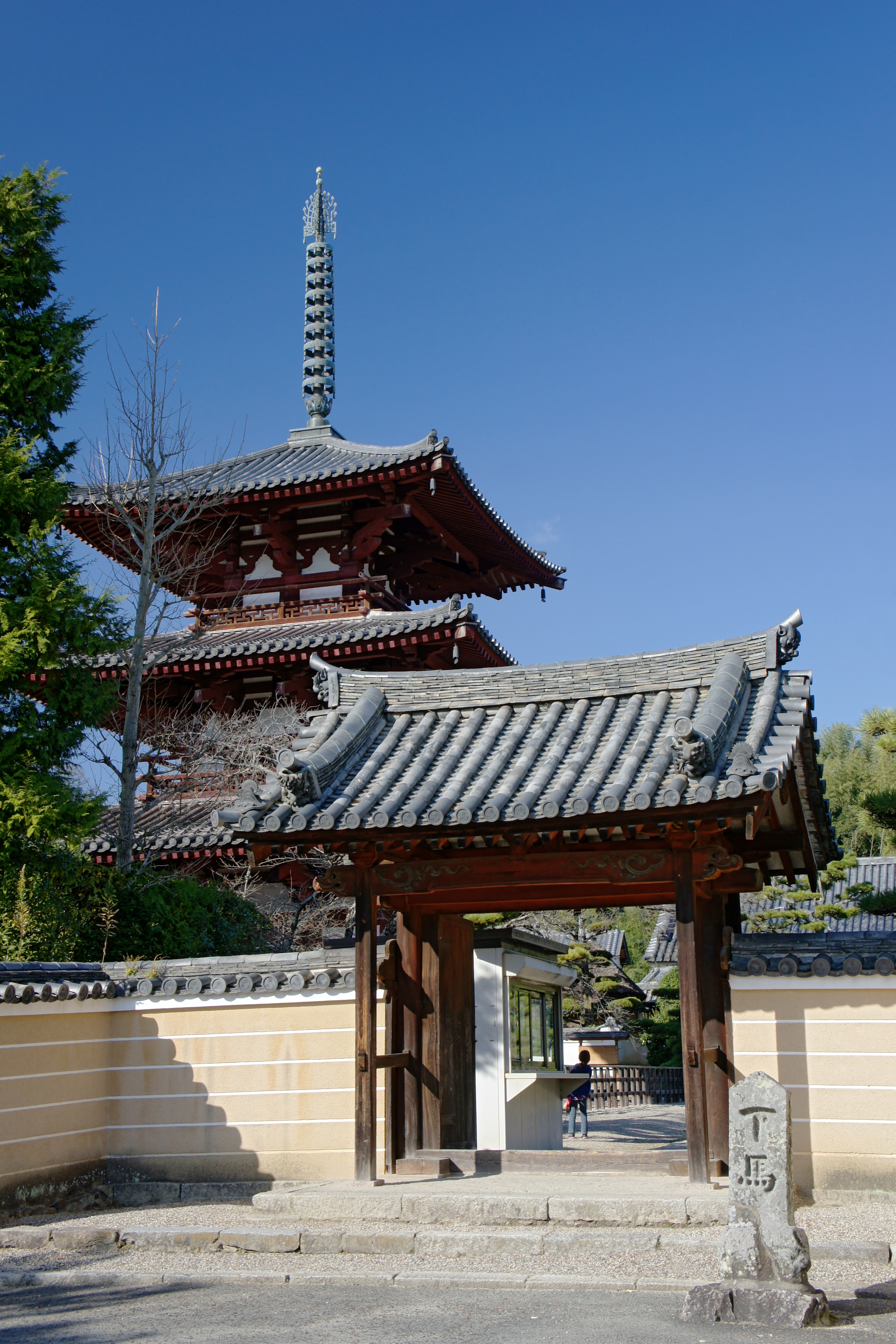 Hōrin-ji is a Buddhist temple in Ikaruga, Nara prefecture, Japan.